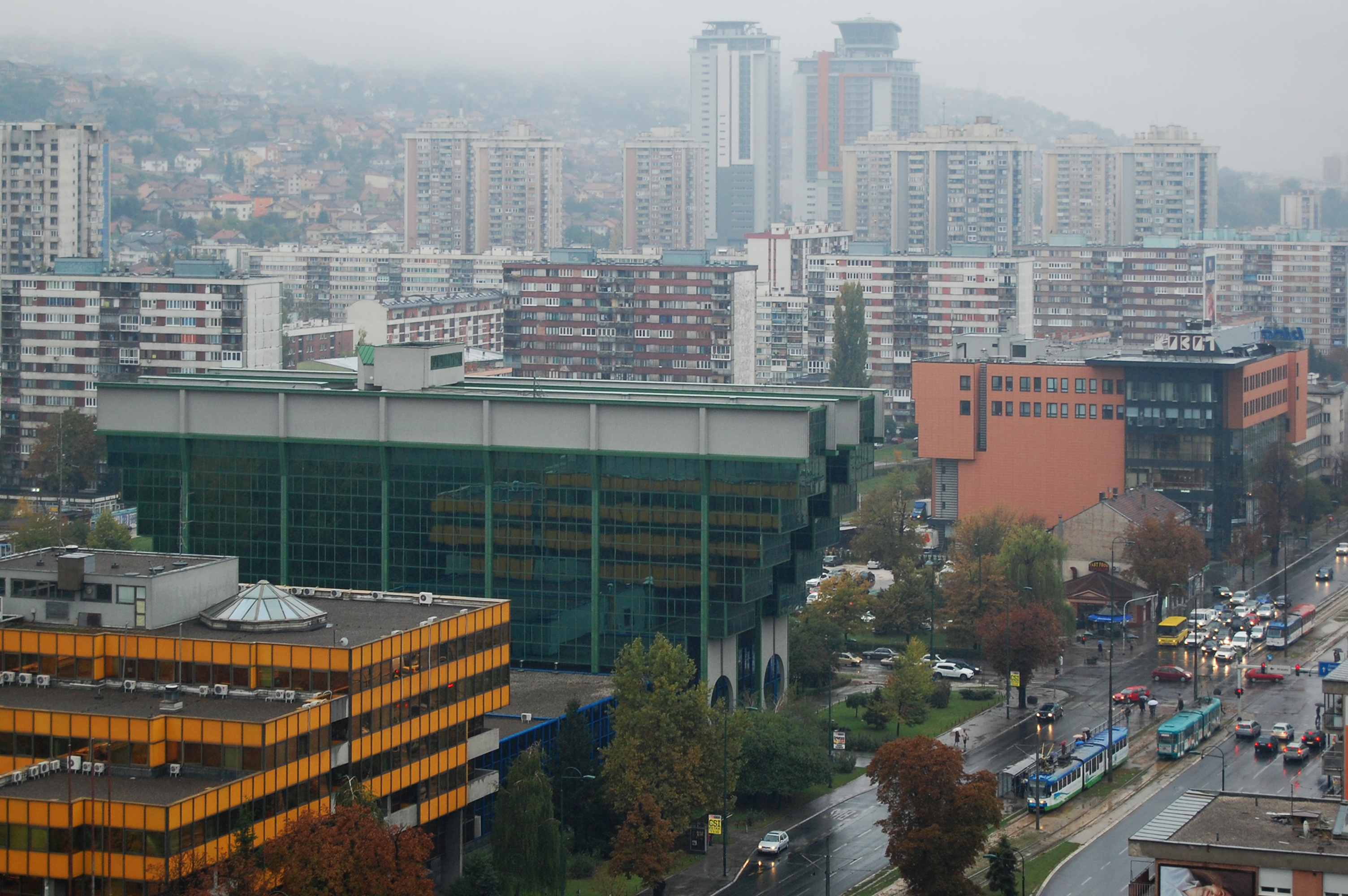 Tram #603 running eastbound at Socijalno, Line #3, October 21, 2011